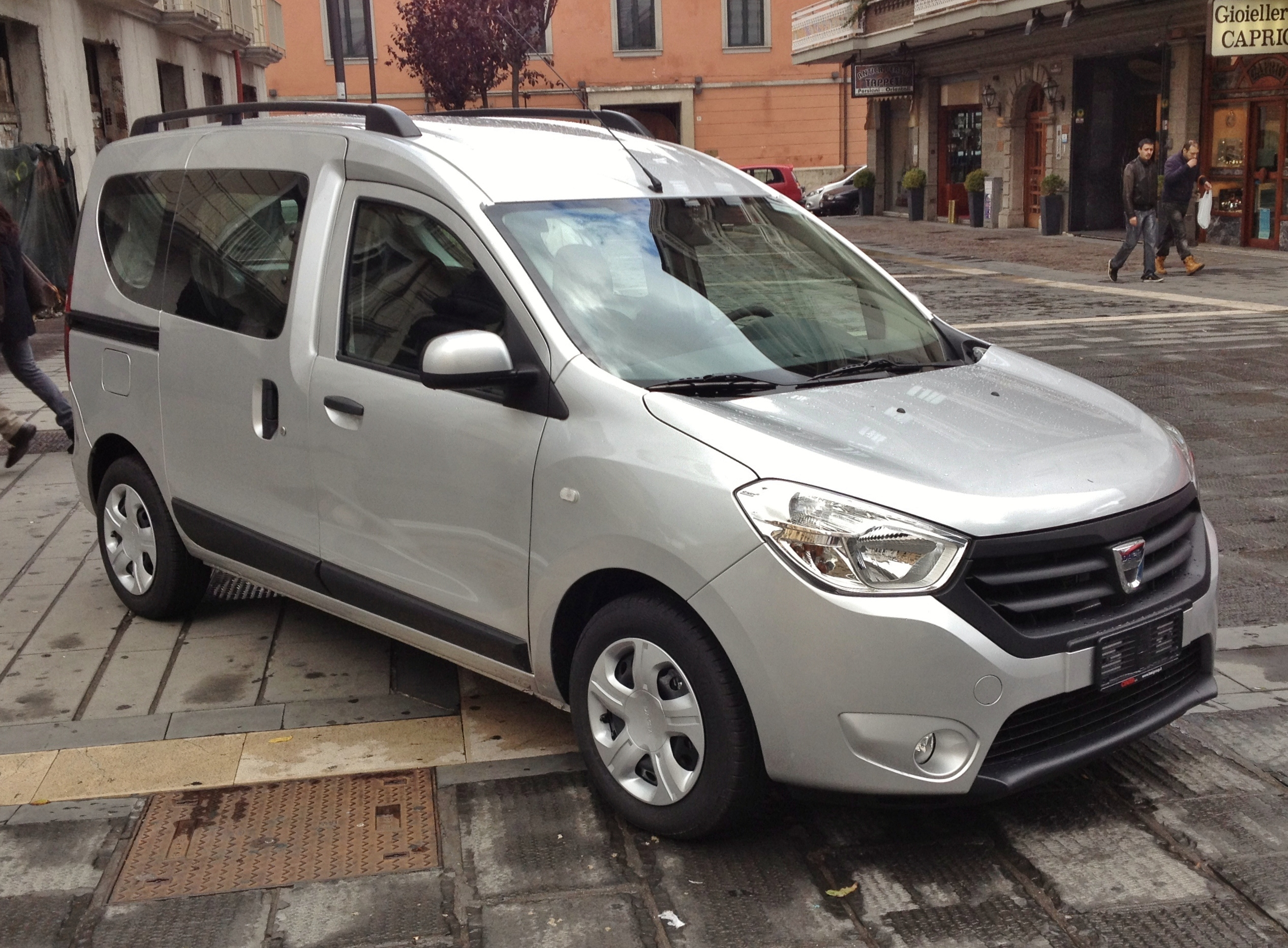 2012 Dacia Dokker in Avellino, Italy